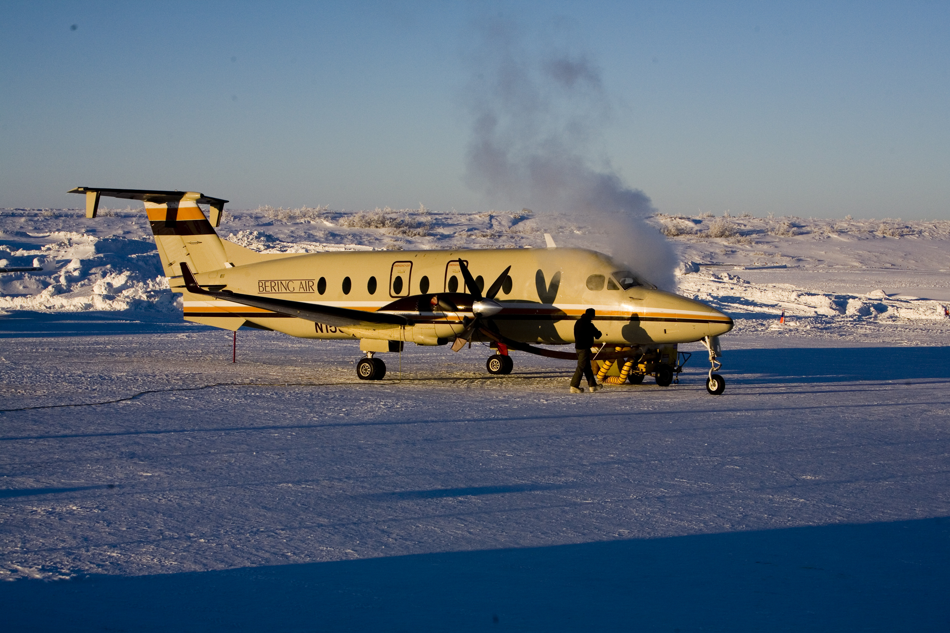 Bering Air Beechcraft 1900 in Nome, Alaska